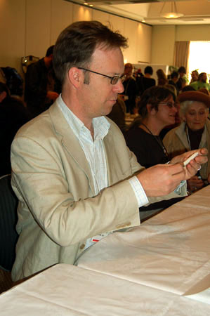 Garth Nix, author.